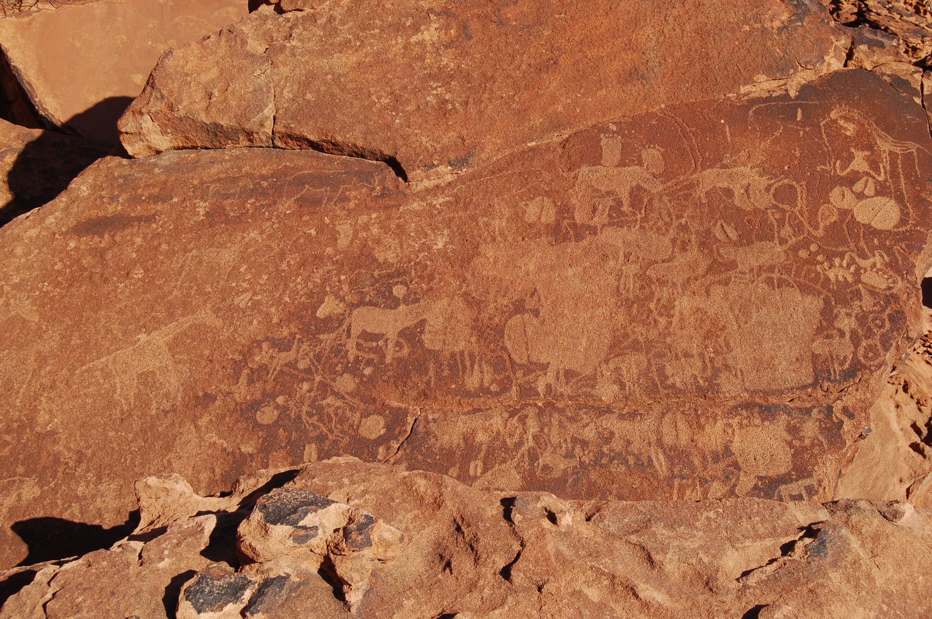 Twyfelfontein Rockpaintings, Namibia